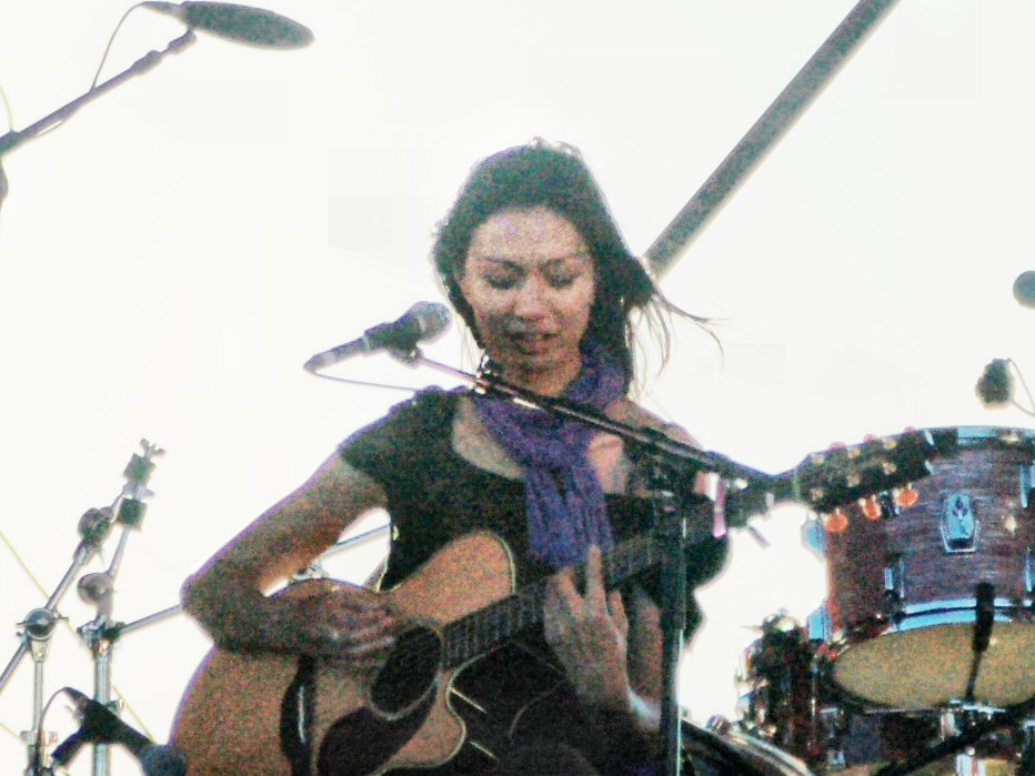 Photo of Boh Runga performing the song Whiplash at Okurukuru Vineyard in New Plymouth on the 16th of February, 2007 at 7:30pm. Boh was performing as the opening act for her sister Bic Runga's Acoustic Winery Tour.